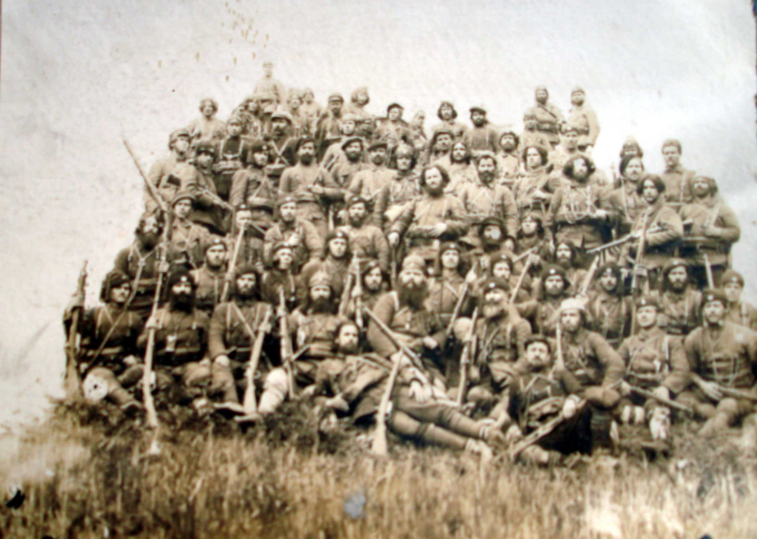 IMRO cheta of Aleko Vasilev (Aleko Pasha)